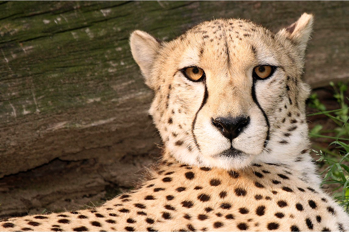 A cheetah (Acinonyx jubatus) at the Smithsonian National Zoological Park located in Washington, D.C.